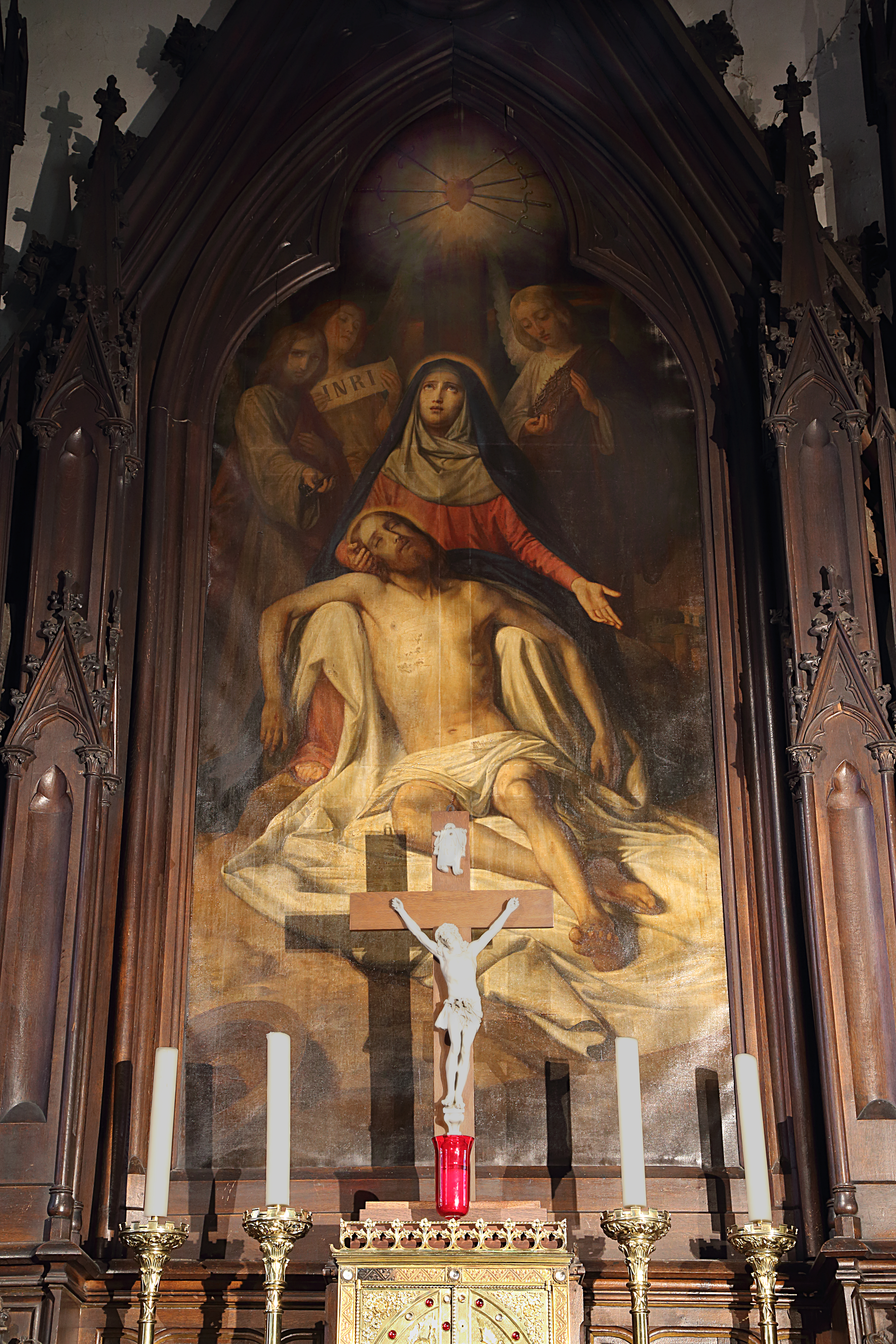 Oil painting on canvas by Lieven Vermote with the title « Pietà », painted in 1859. Situated next to the altar of the church Saint Bartholomew of Mouscron, Belgium.